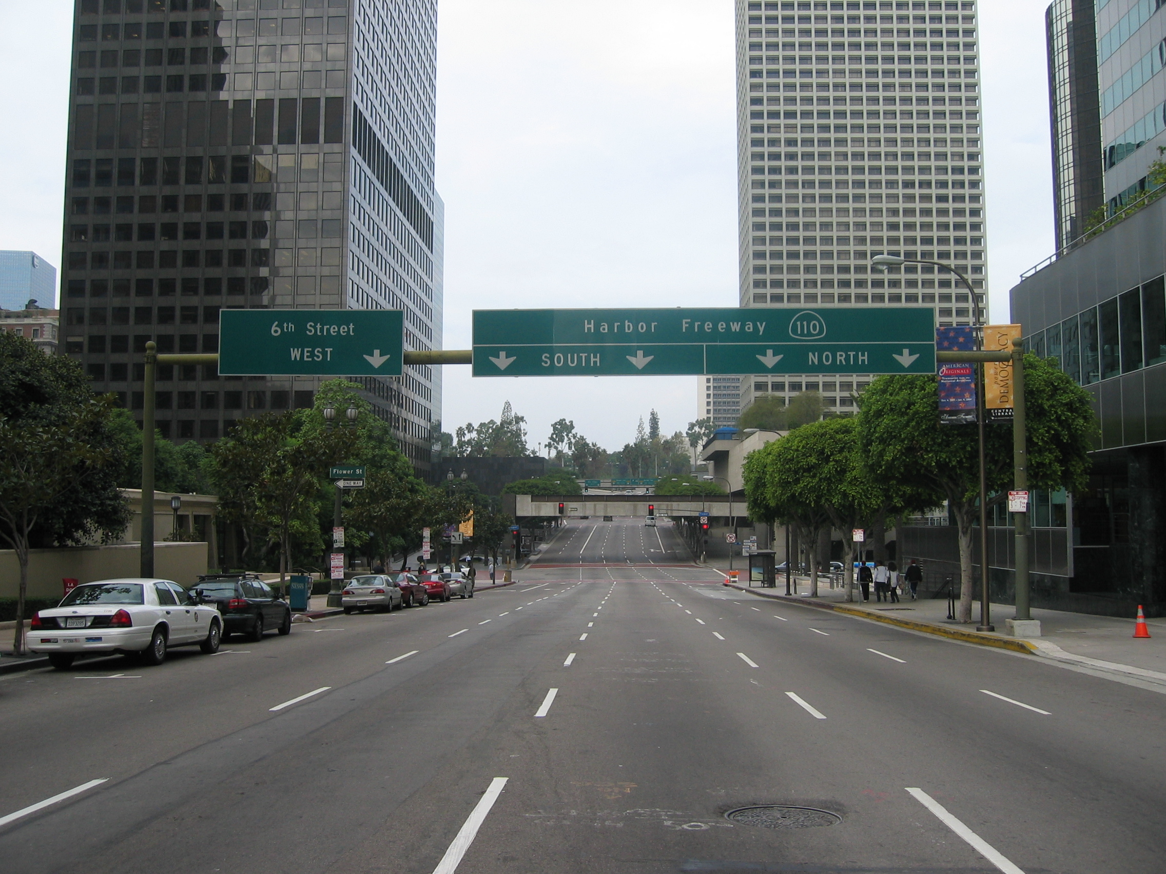 Harbor Freeway (State Route 110) road sign gantry on 6th Street — in Downtown Los Angeles.